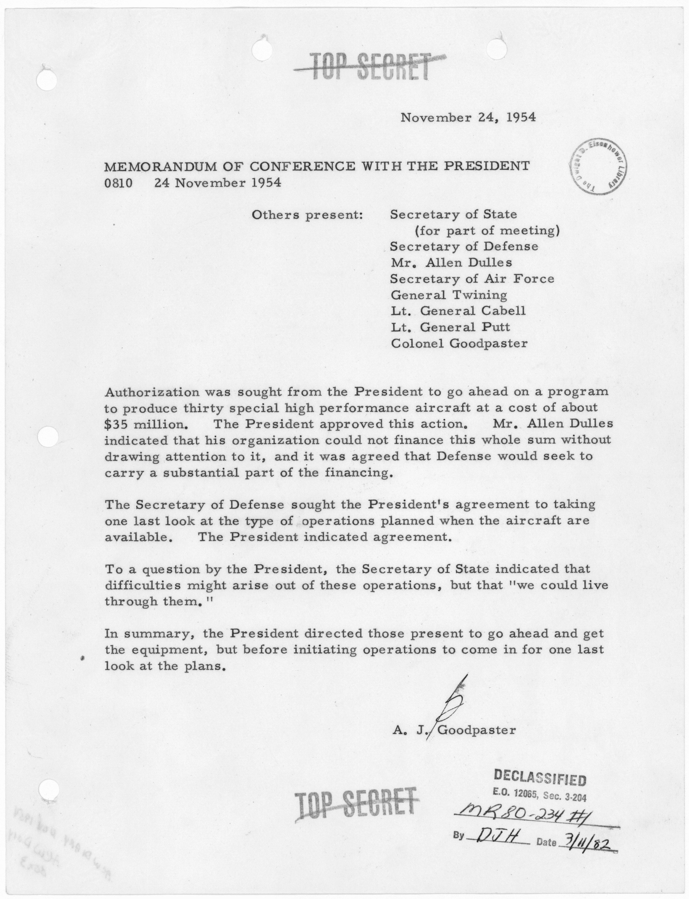 Scope and content: Authorization by the President to produce 30 U-2 aircraft.